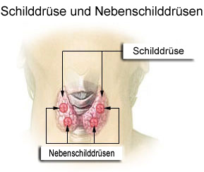 Thyroid and parathyroid glands legend translated to german